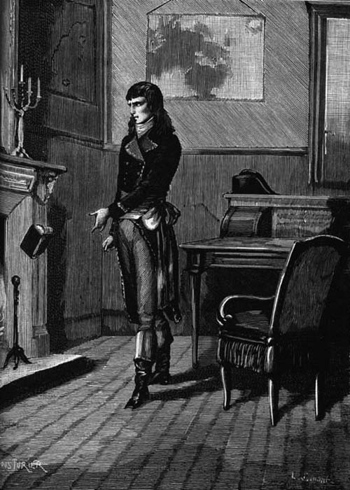 Engraving of Napoleon Bonaparte throwing a book of the Marquis de Sade into the fire.